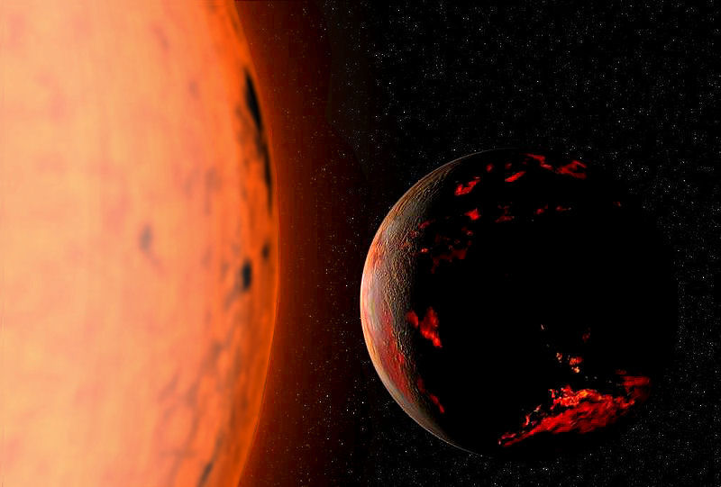 Image of what Earth may look like 5-7 billion years from now, when the Sun swells and becomes a Red Giant. It is a modified version of the File:Red Giant Earth.jpg image uploaded by Fsgregs. The main difference is that the Sun has been brightened and given an orange hue.